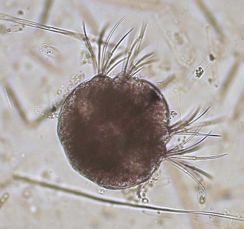 Larva (metatrochophore) of polychaete; hydrofront of Dnieper-Bug Liman